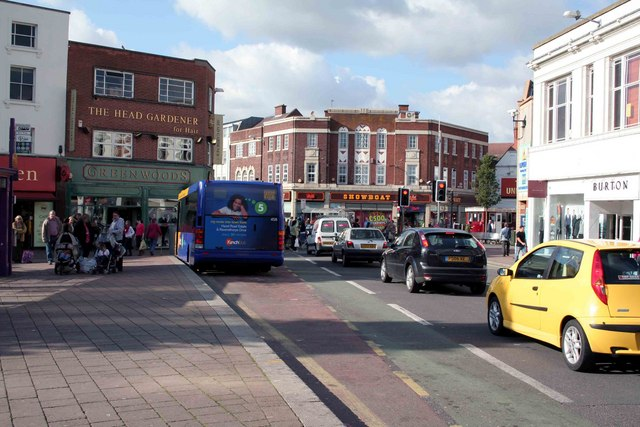 Loughborough Town centre The Head Gardener is for your hair not garden !